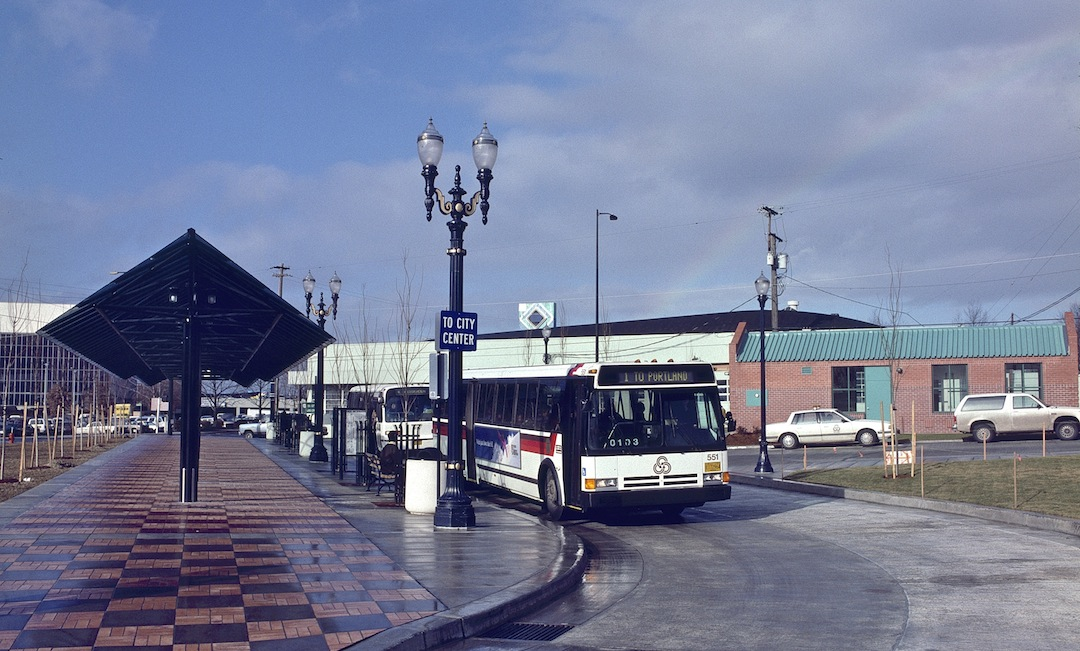 A rainbow shines over TriMet's Coliseum Transit Center (later renamed Rose Quarter Transit Center) on January 13, 1991, the first day of service through a newly built off-street section - a bus-only roadway (for southbound buses only) with a long passenger shelter. Bus 551 (a 1989 Flxible Metro on route 1-Greeley) is pulling away from the stop, and bus 974 (a 1982 GM RTS on route 4-Fessenden) is pulling up to the stop. In the lefthand background is the Memorial Coliseum, the namesake of the transit center and adjacent MAX station. The light green industrial building in the center background was demolished about two years later and replaced by the Rose Garden Arena. Only three years after this photo, in January 1994, this roadway and bus stop were closed and demolished, as part of a reconfiguration of several streets/intersections in connection with the construction of the new arena. The brick building at right, which is for TriMet bus drivers and fare inspectors, was retained and continues in use today.